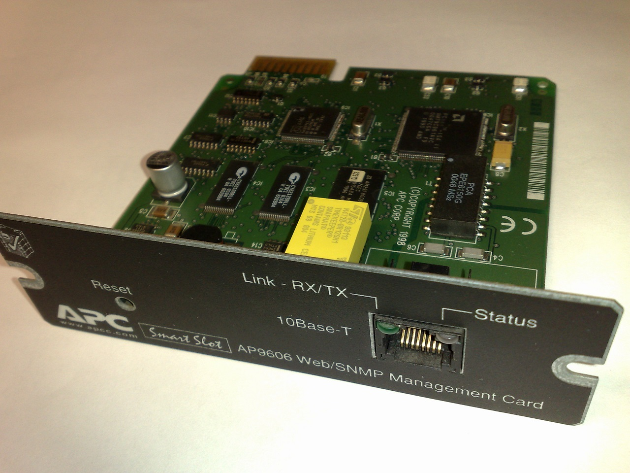 APC AP9606 SmartSlot Web/SNMP Management Card, with an Ethernet port on its front panel